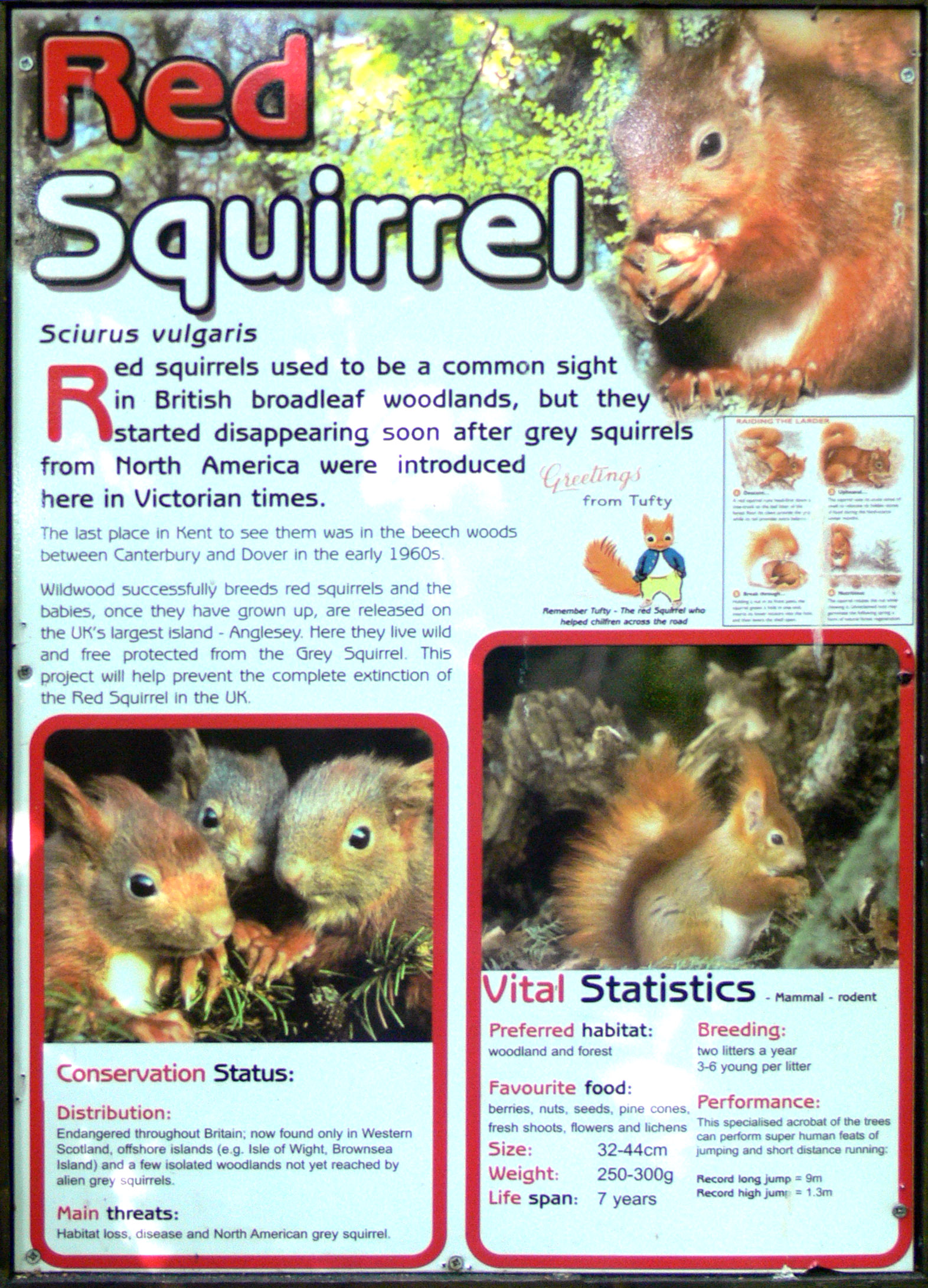 Sample panels for reception and information, guiding visitors to the Wildwood Discovery Parkrecently calledWildwood Trust,in Kent (United Kingdom)